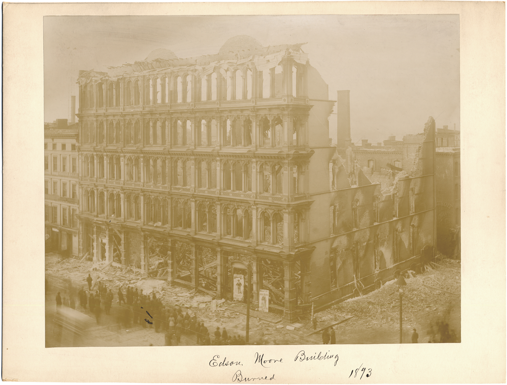 Fire destroyed Edson, Moore & Co building on Jefferson Avenue in Detroit in November, 1893